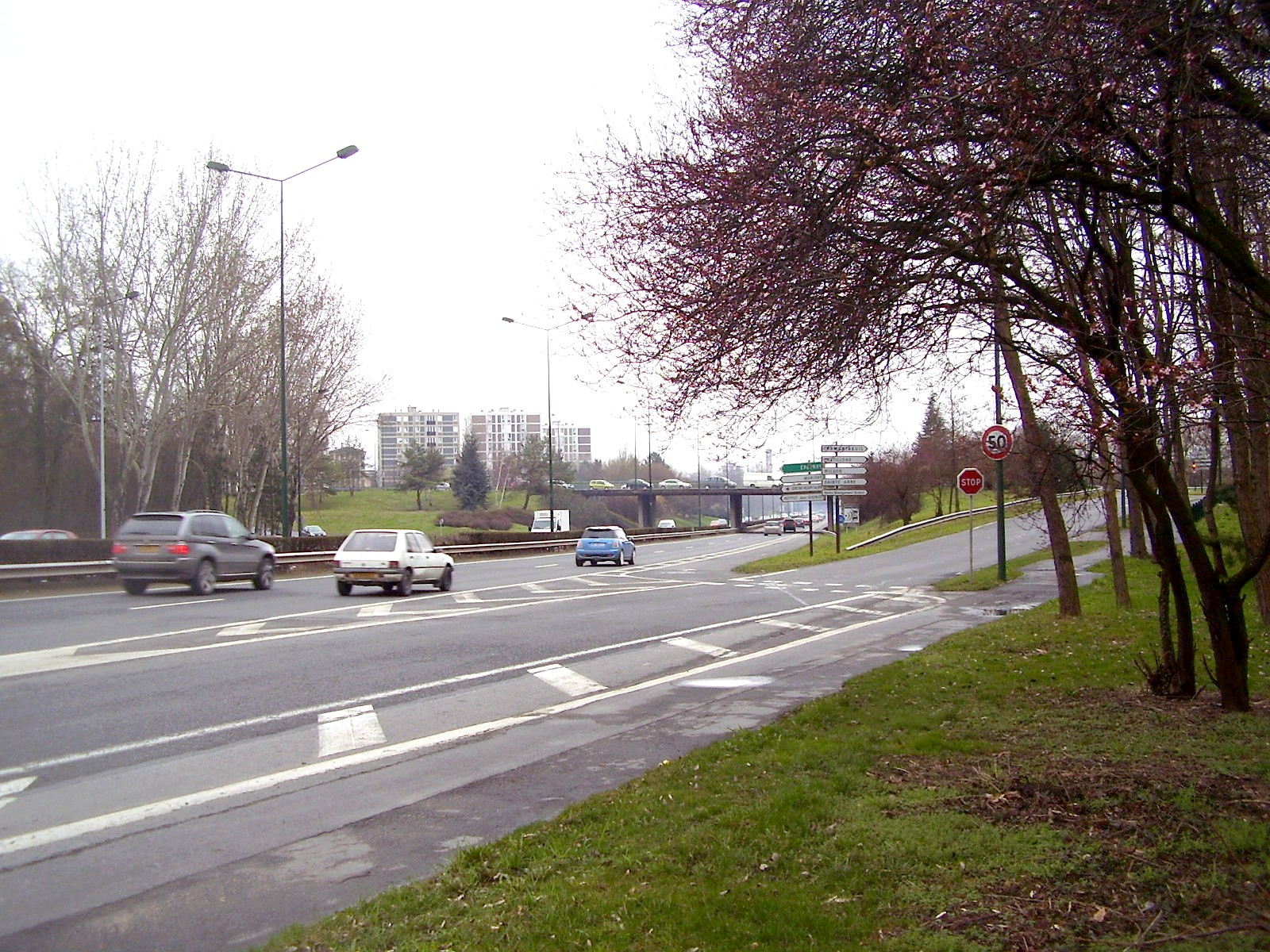 French national route N51 South of Rheims